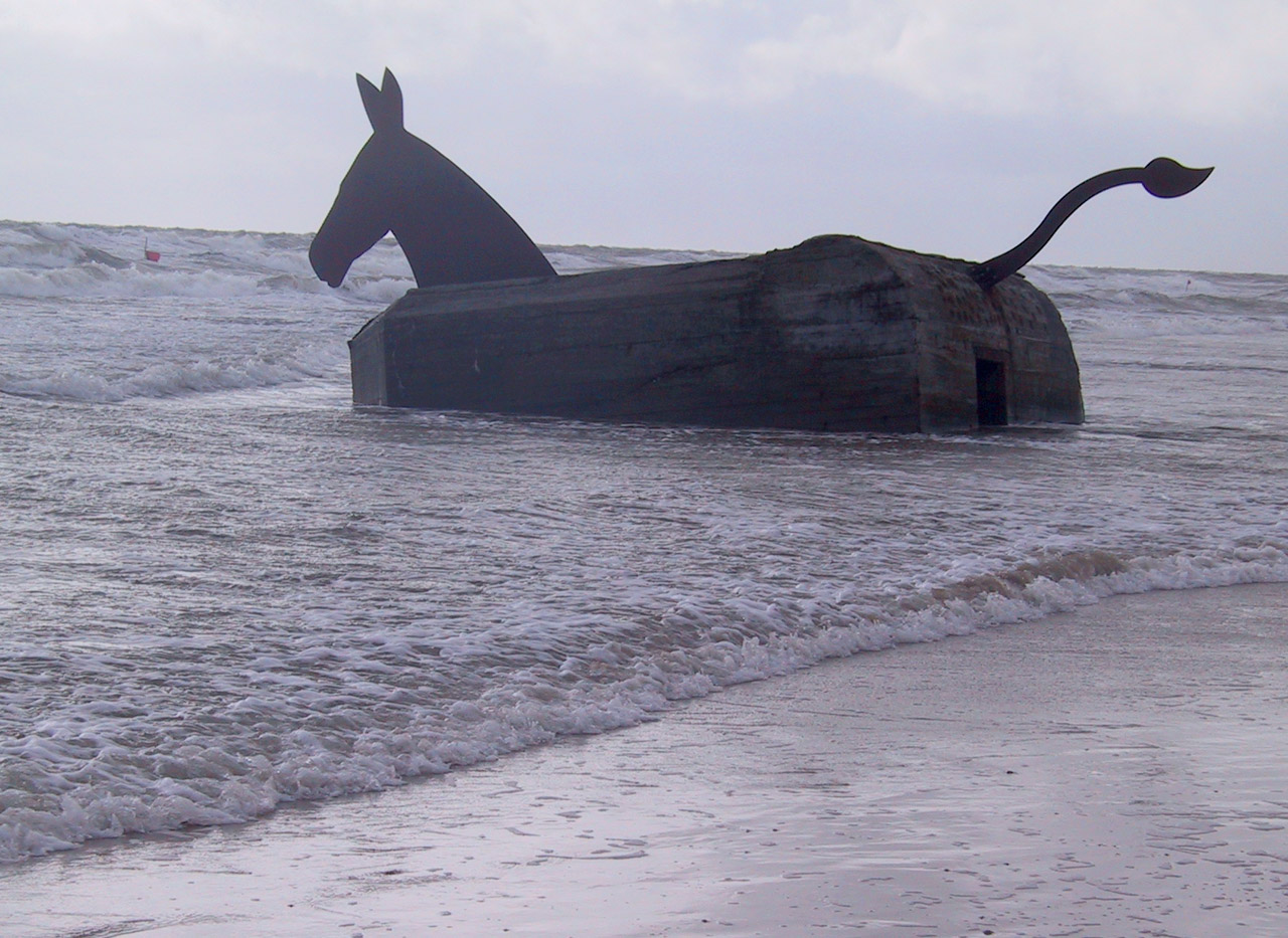 The sculpture Bunker/Mule (1995) by Bill Woodrow, which consists of concrete bunkers along the beach at Blåvand-Oksby, Denmark (part of the Atlantic Wall), mounted with horses' heads and tails cut from steel. Depending on the tide, the sculptures are either on the shore or in the sea.